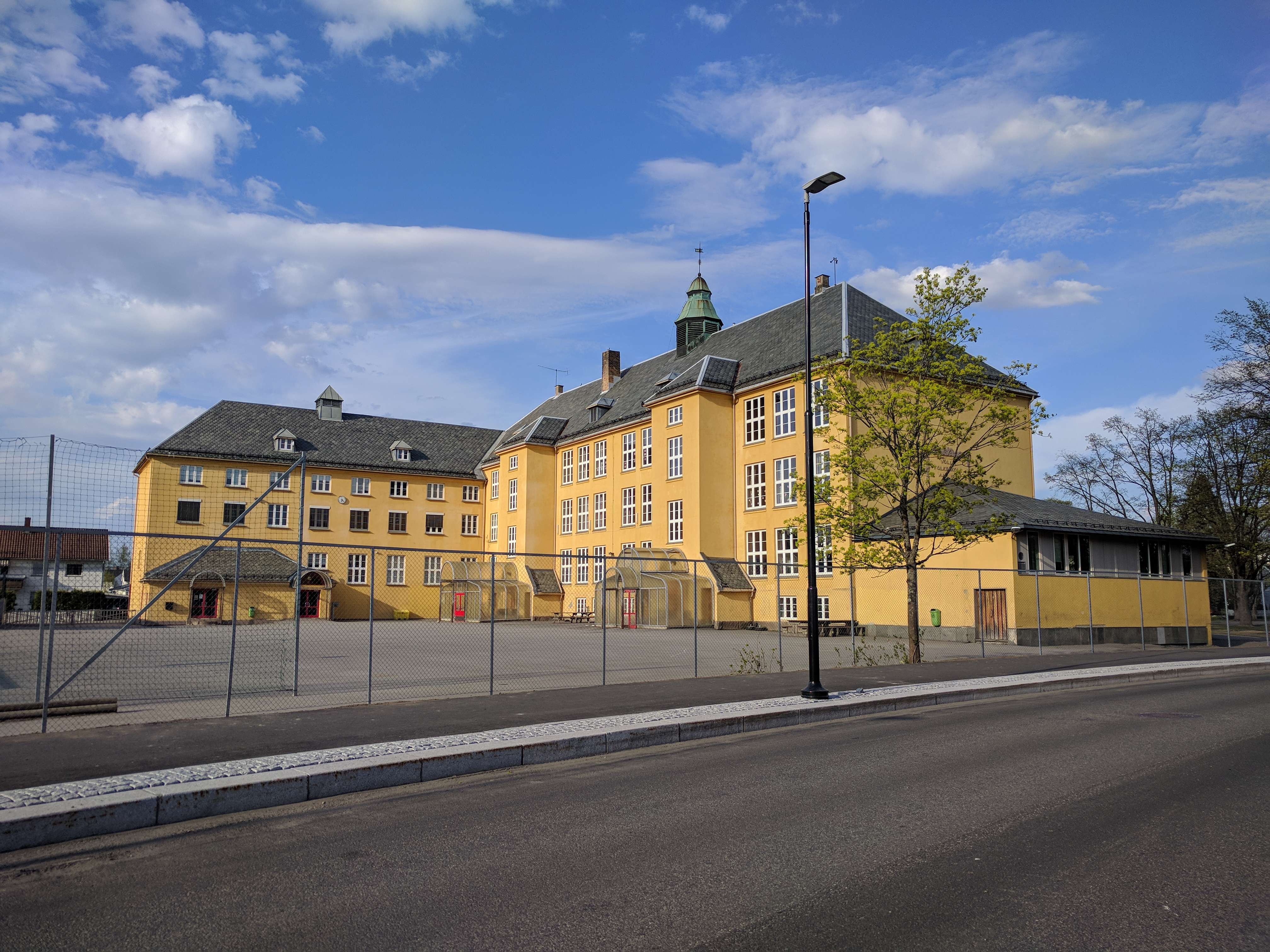 Volla primary school at Lillestrøm